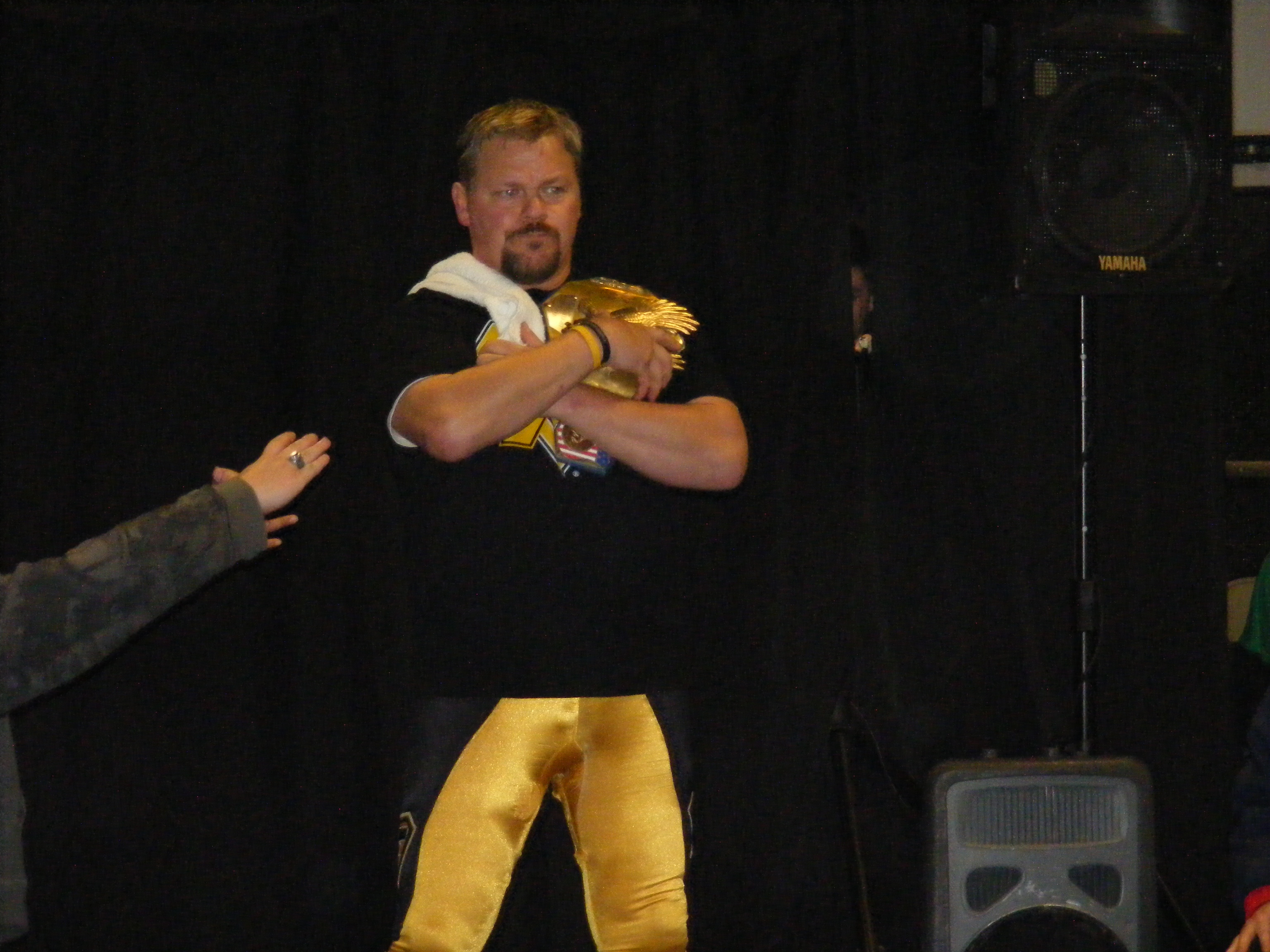 The Franchise Shane Douglas as BTW Champion, Chicopee MA, March 26, 2011.